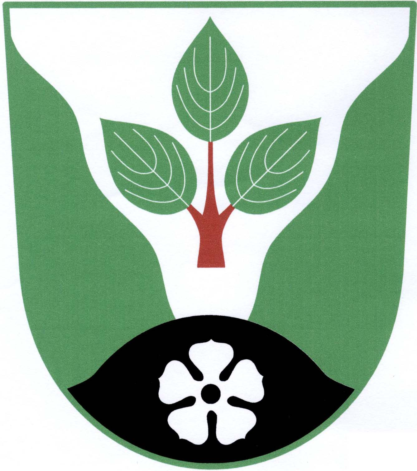 Coat of amrs of Dymokury , District Nymburk, Czech Republic